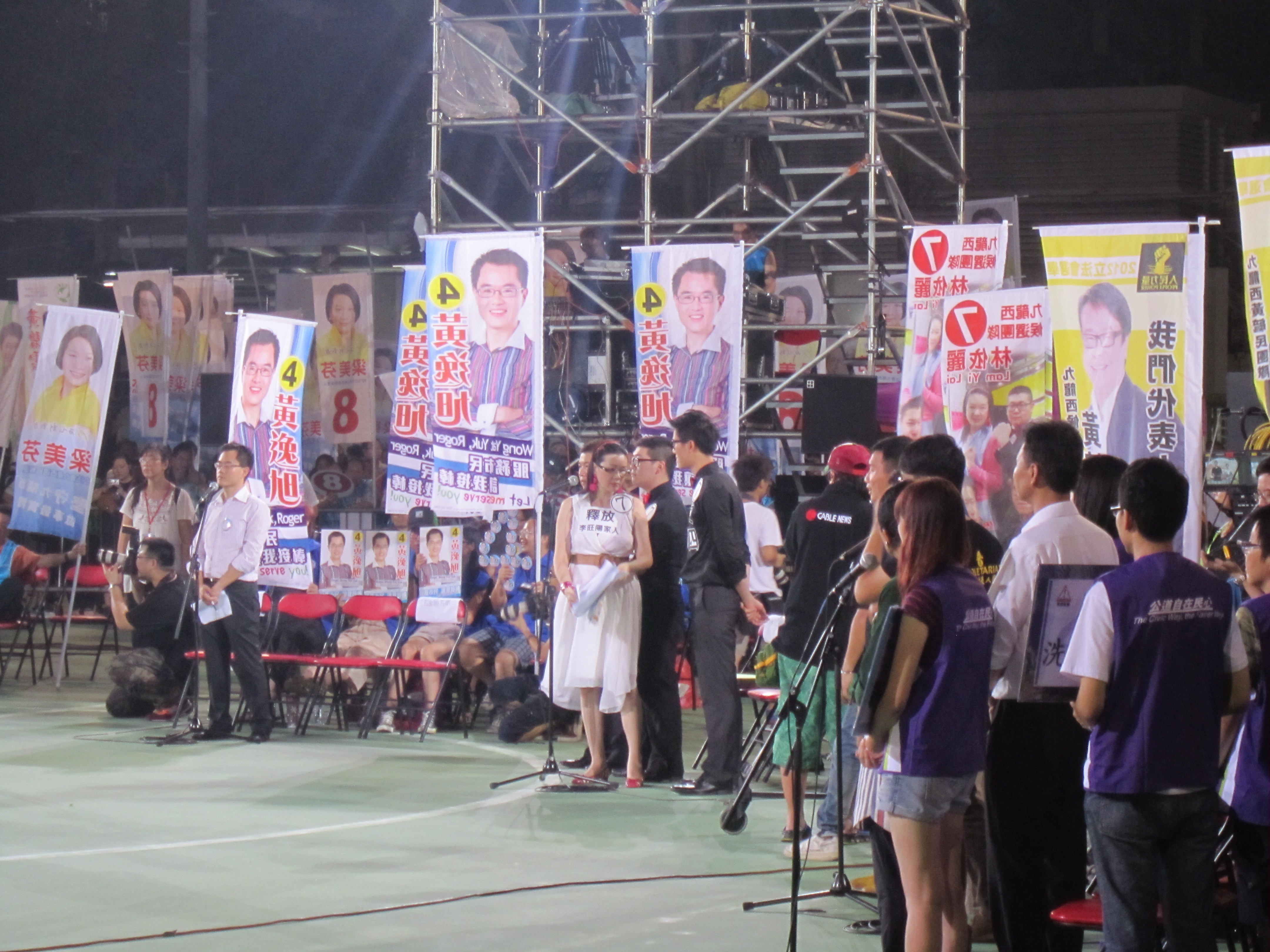 Lam Yi-lai in 2012 Hong Kong Legco Elcetion forum